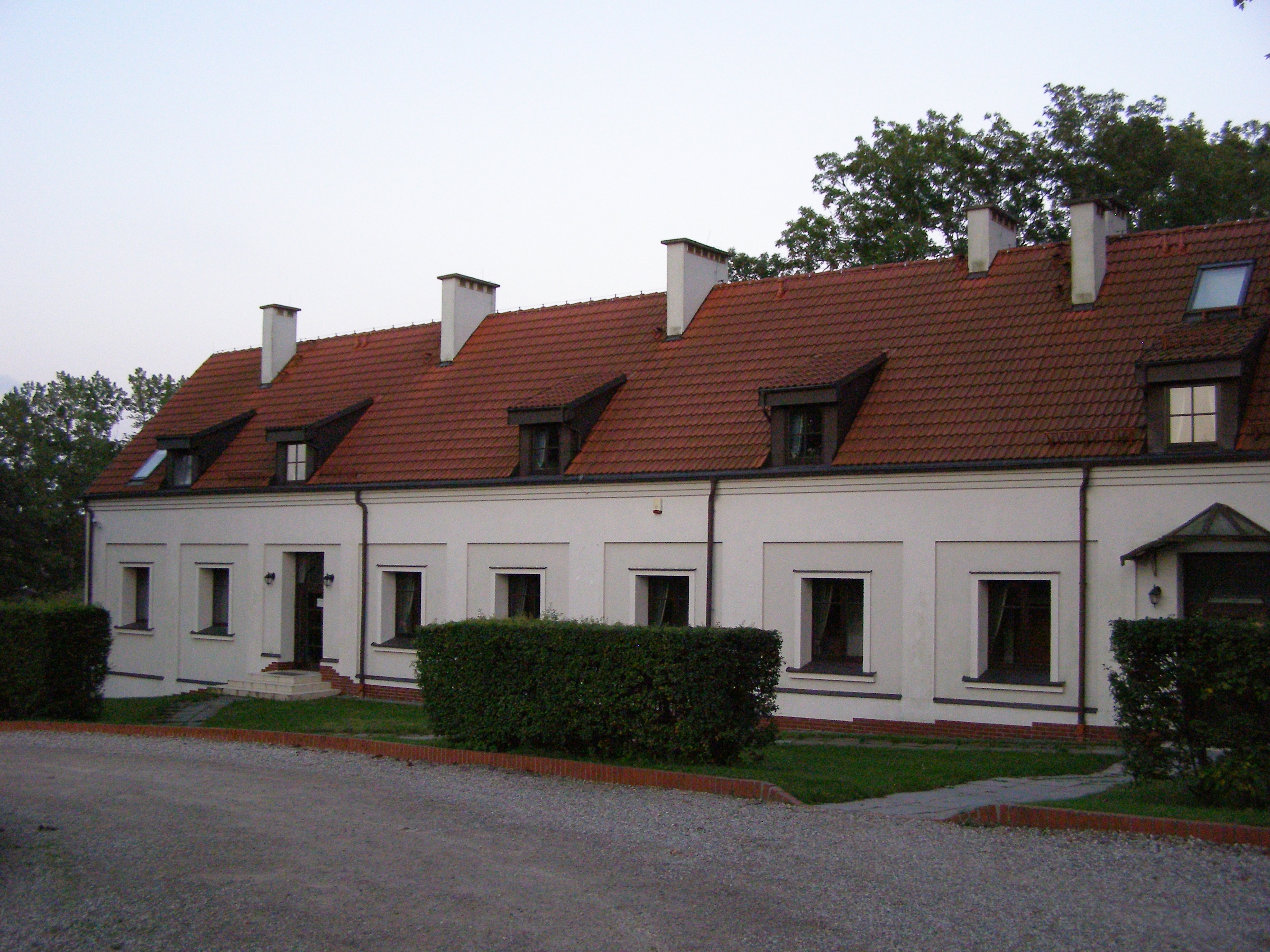 Leźno - palace, farm buildings